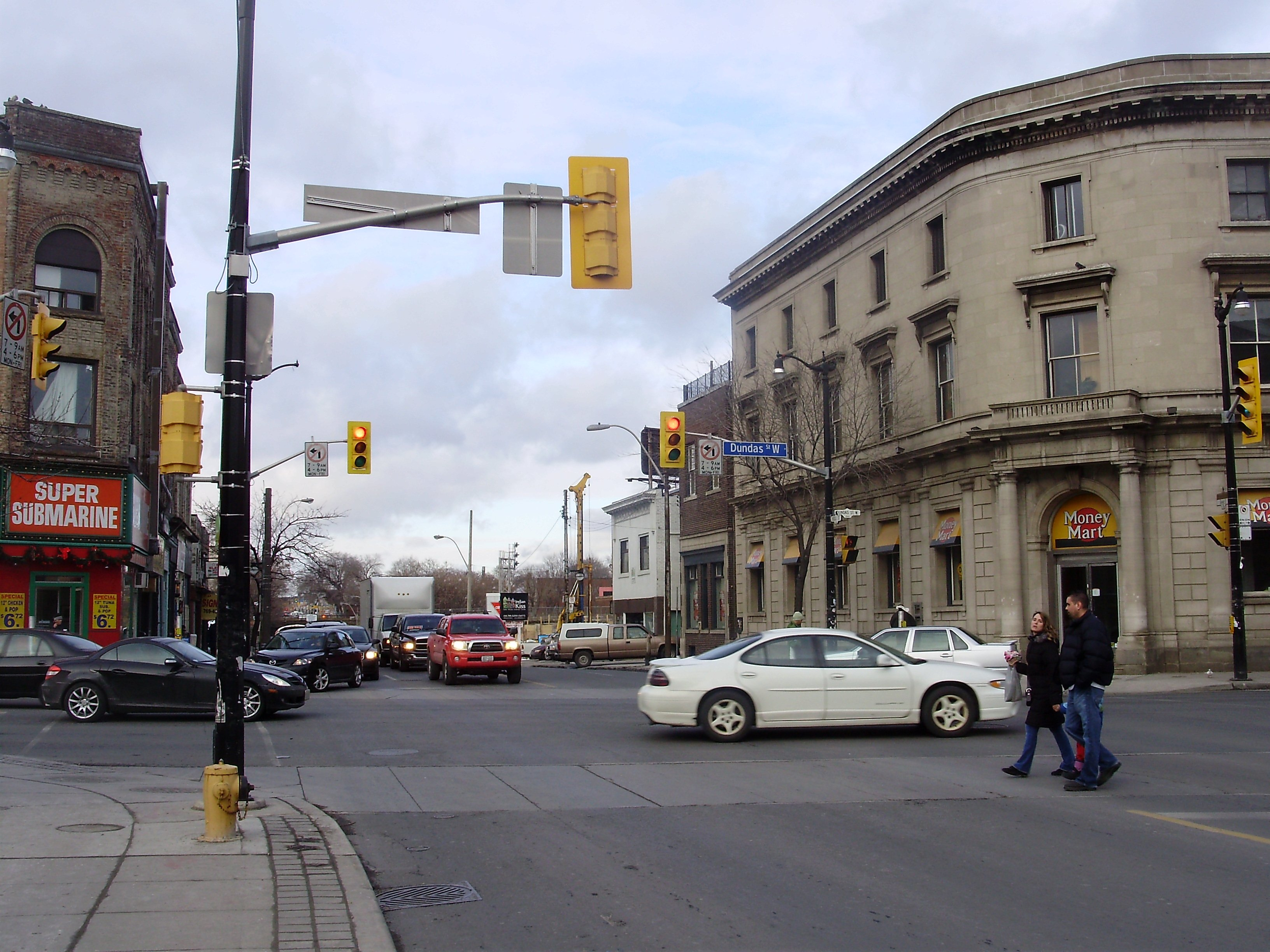 Looking north toward the intersection of Dundas Street West and Keele Street in Toronto, Ontario, Canada. Taken for comparison with similar image photographed by Alfred Pearson on October 8, 1923.